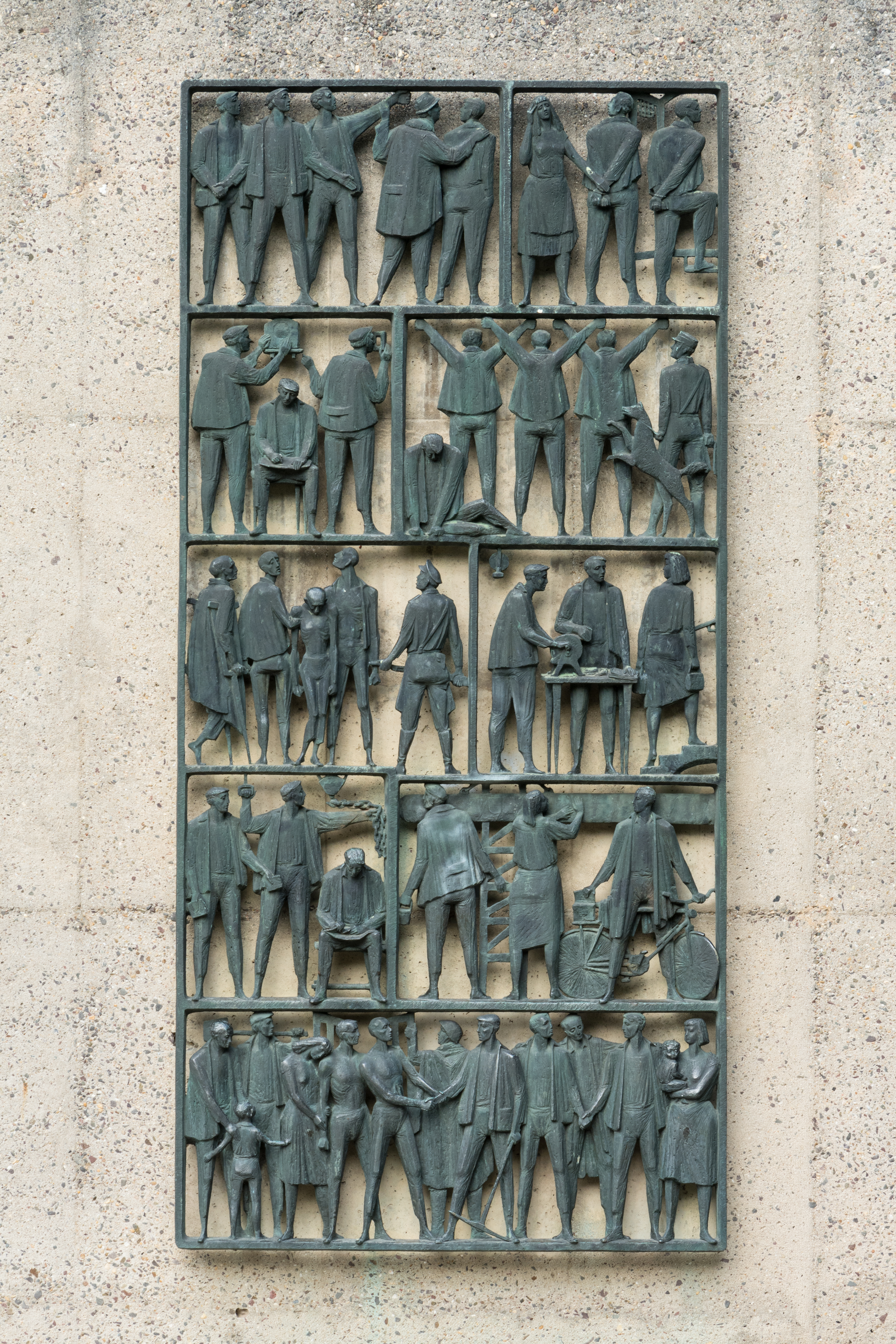 Relief at memorial to Magdeburg's resistance fighters. This is a photograph of an architectural monument.It is on the list of cultural monuments of Magdeburg